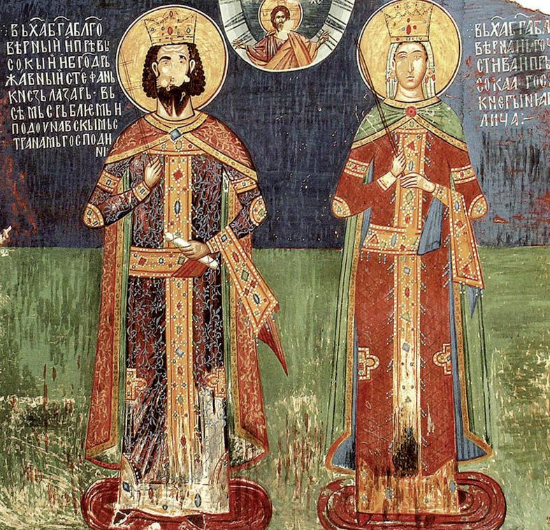 Fresco painting from Ljubostinja Monastery in Serbia, depicting Prince Lazar of Serbia and his wife, Princess Milica